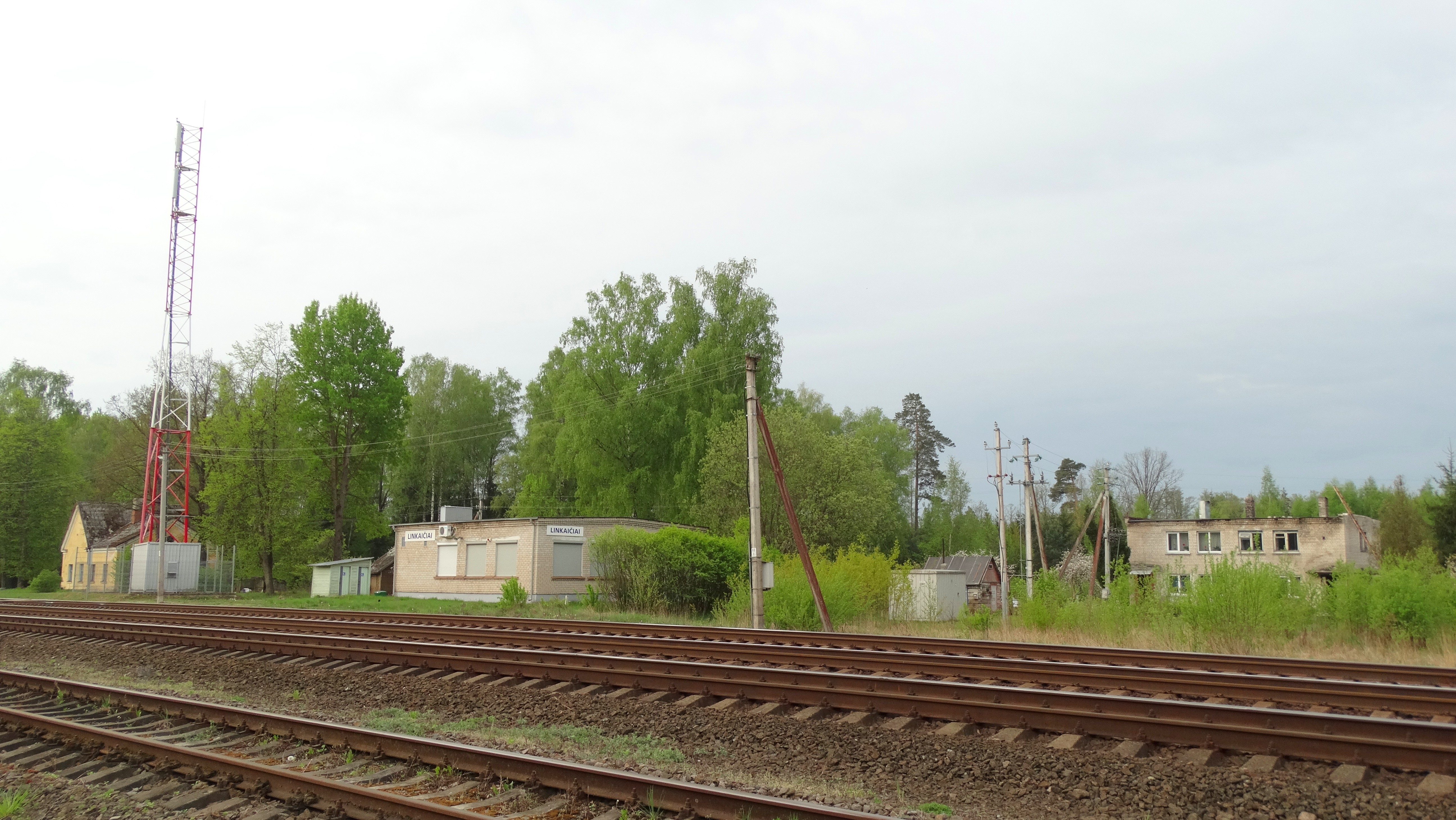 Linkaičių GS, railway station, (Radviliškis), Lithuania